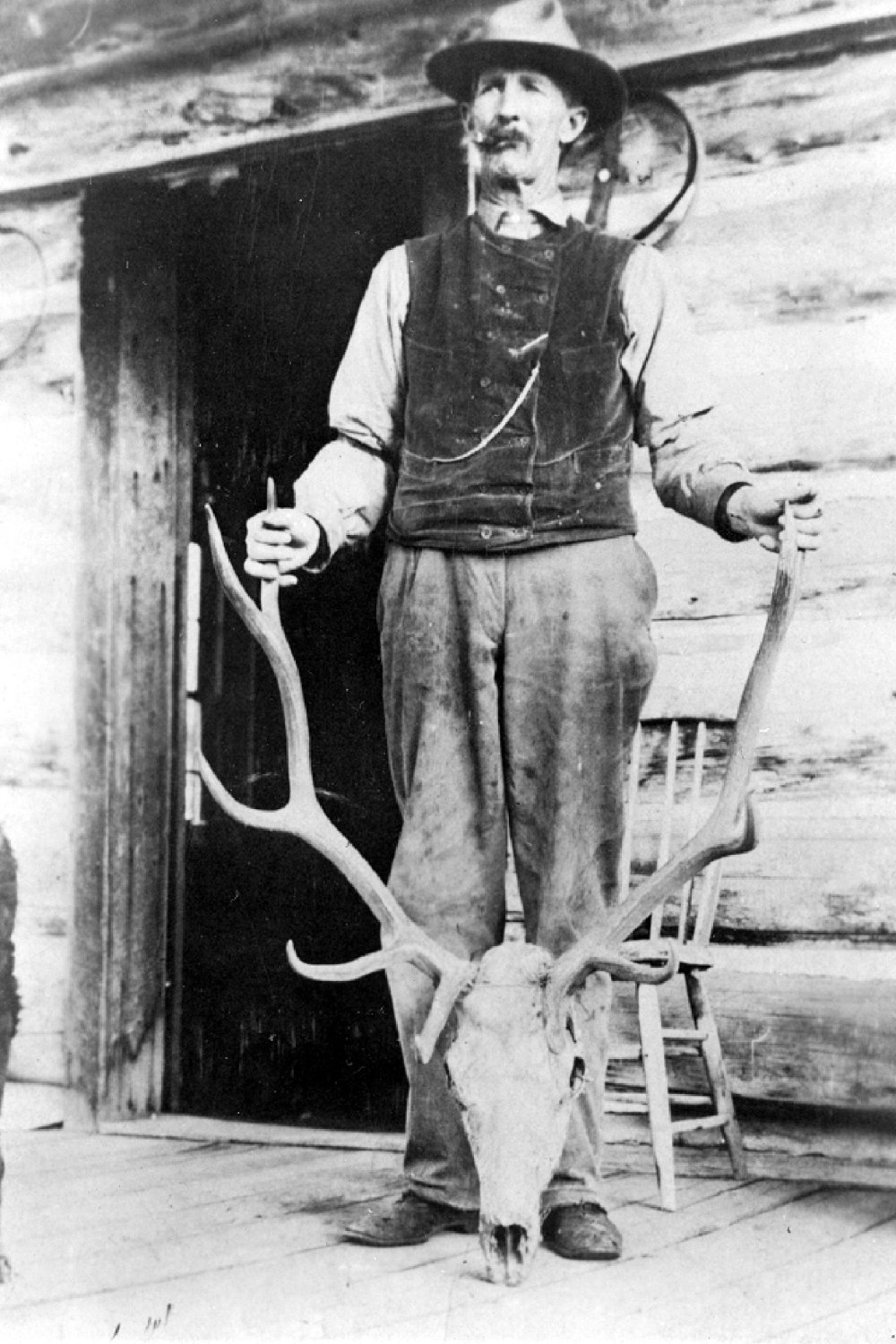 Black & white photograph of a standing man holding the skull of an animal with antlers.